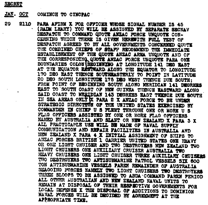 Message: 03 1905 APR 1942 COMINCH to CINPAC